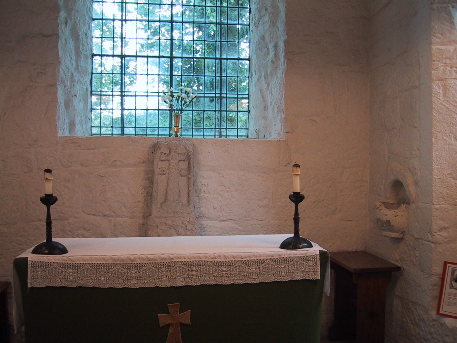 Altar in the chancel of the Anglo-Saxon church at Escomb, County Durham